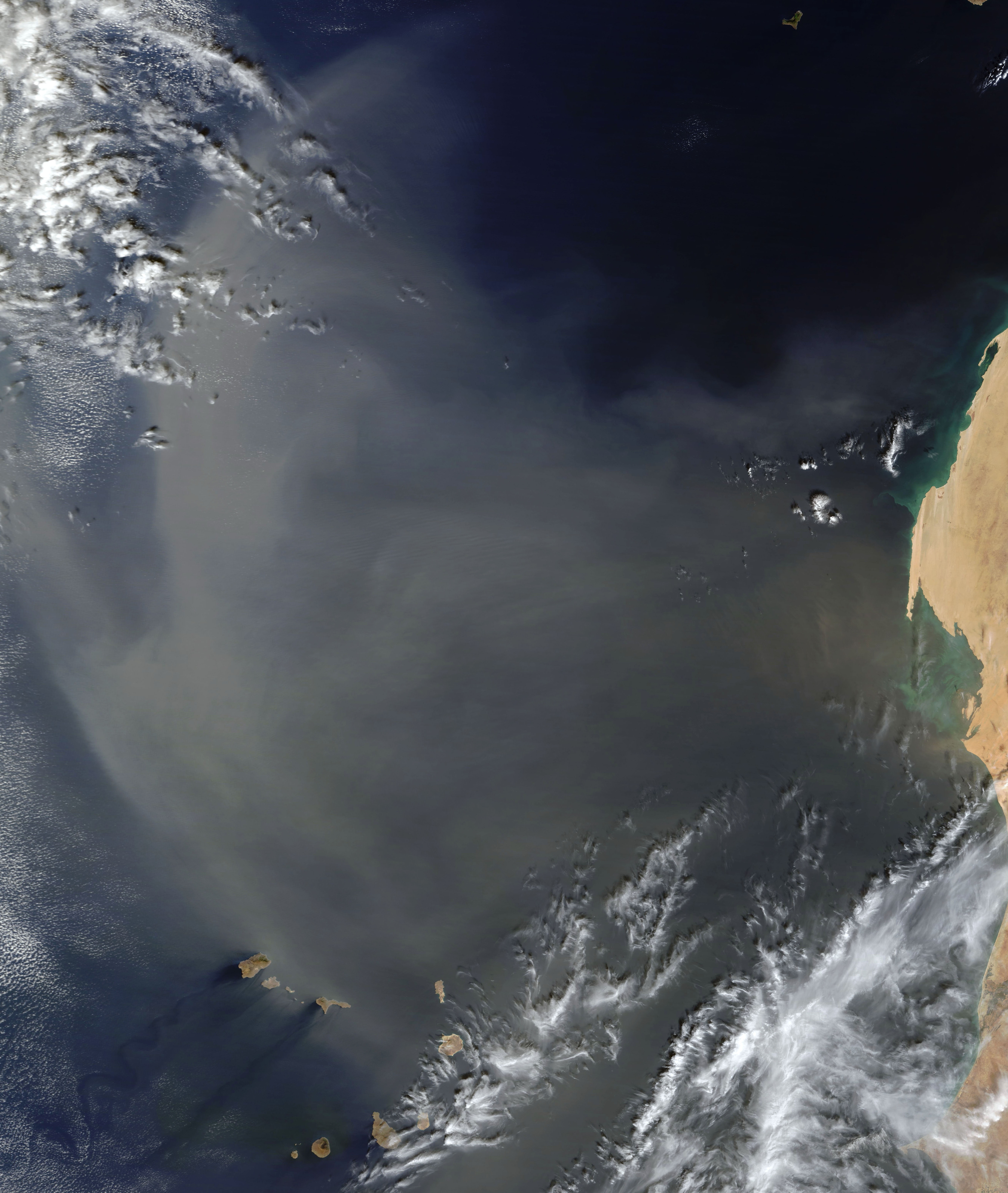 Canary Islands towards the right upper corner. The Canary current marks a wide zone free of clouds because it is made up with cold waters. However, a kind of veil rotating clockwise is not made with clouds but with dust and sand from the Sahara.